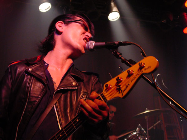 Billy (Bass Wolf) of Guitar Wolf, performing at the Exit/In in Nashville, Tennessee.